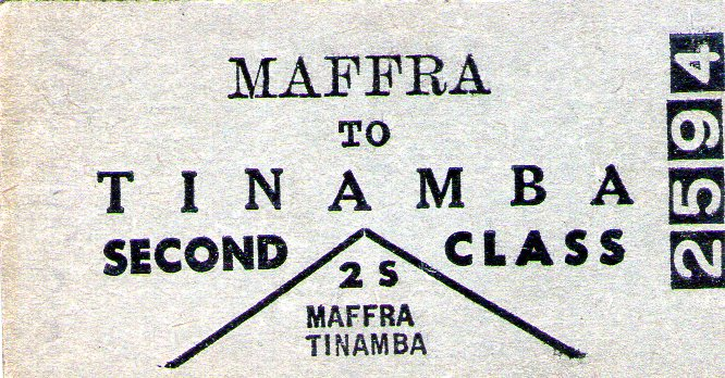 Maffra-Tinamba '2nd class' ticket issued ~20 years after term abolished